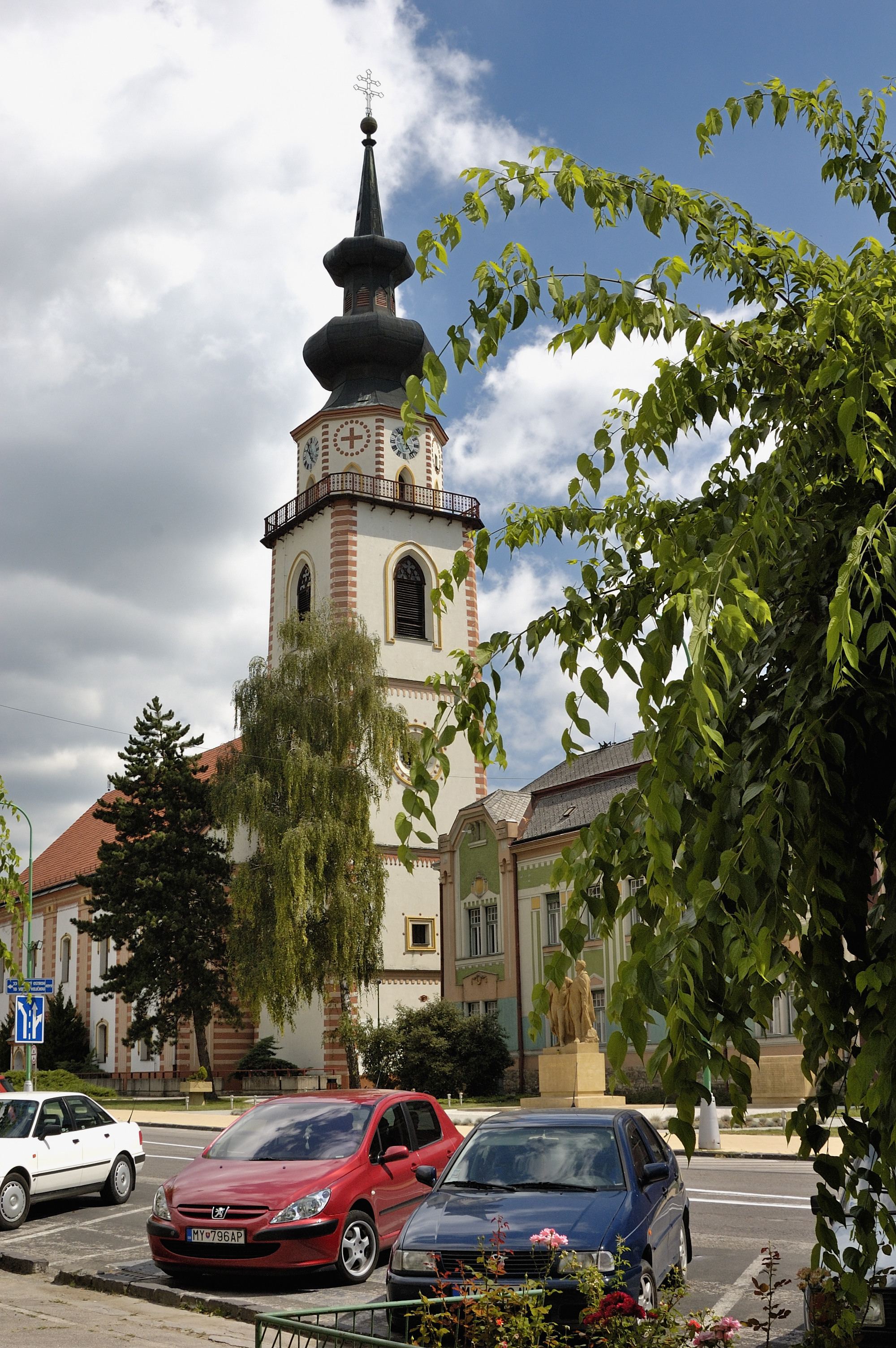 Myjava